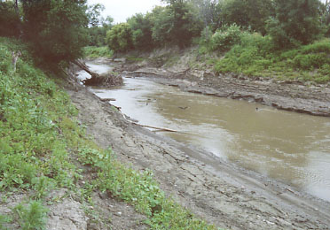 Photograph by Tim Kiser. The Pembina River viewed upstream from its mouth at Pembina, North Dakota, 23 August 2004.